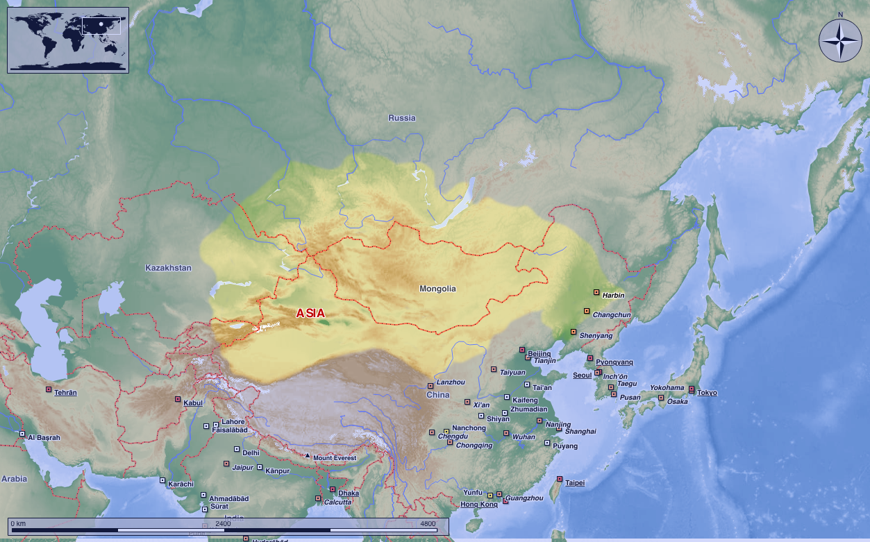 This map shows the empire of the Xiongnu in the period between 209 BC and 216 AD. The source of the map is: "Der große Atlas zur Weltgeschichte", Orbis Verlag 1990, ISBN 3-572-04755-2, P. 47.